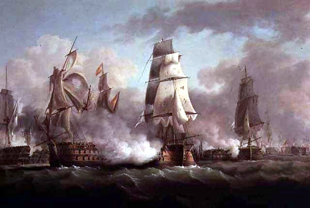 Neptune engaged, Trafalgar, 1805. HMS Neptune, shown bow on, exchanges broadsides with the four-decked Spanish ship Nuestra Señora de la Santísima Trinidad. In the background to the right of the panting HMS Conqueror fires into the dismasted French flagship Bucentaure